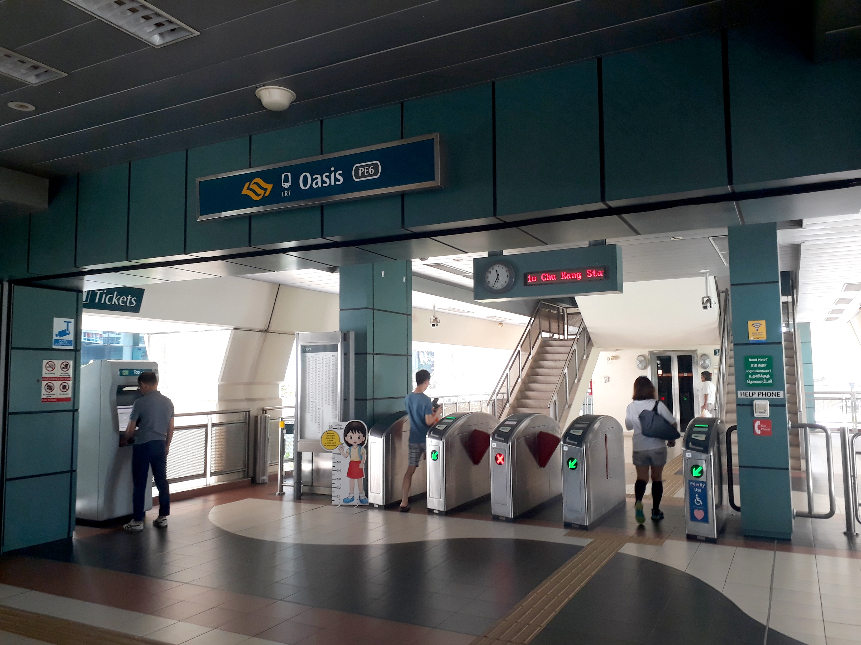 Concourse of Oasis LRT station